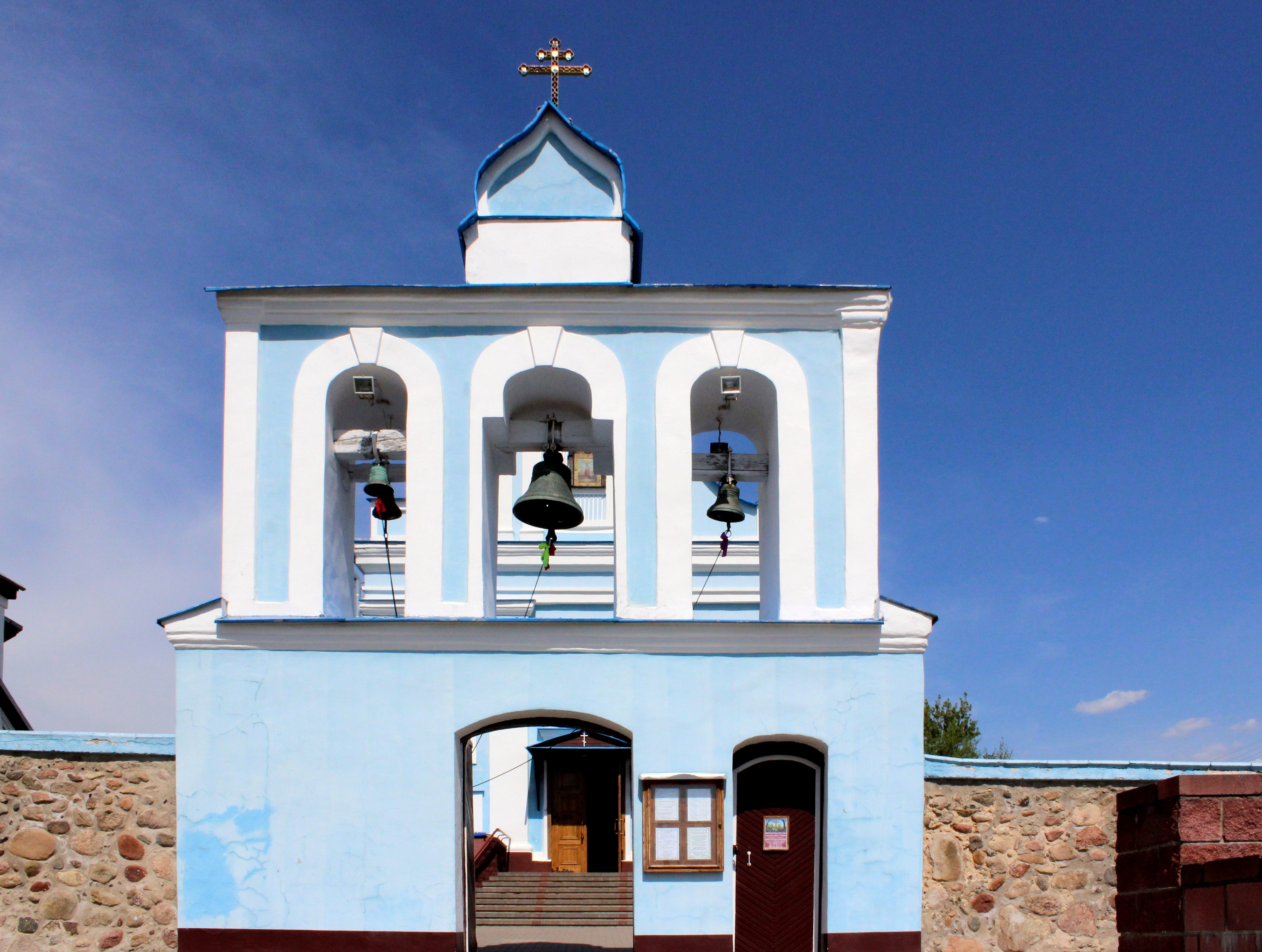 Belfry and entrance gate of church of Saint Anna in Stoubcy